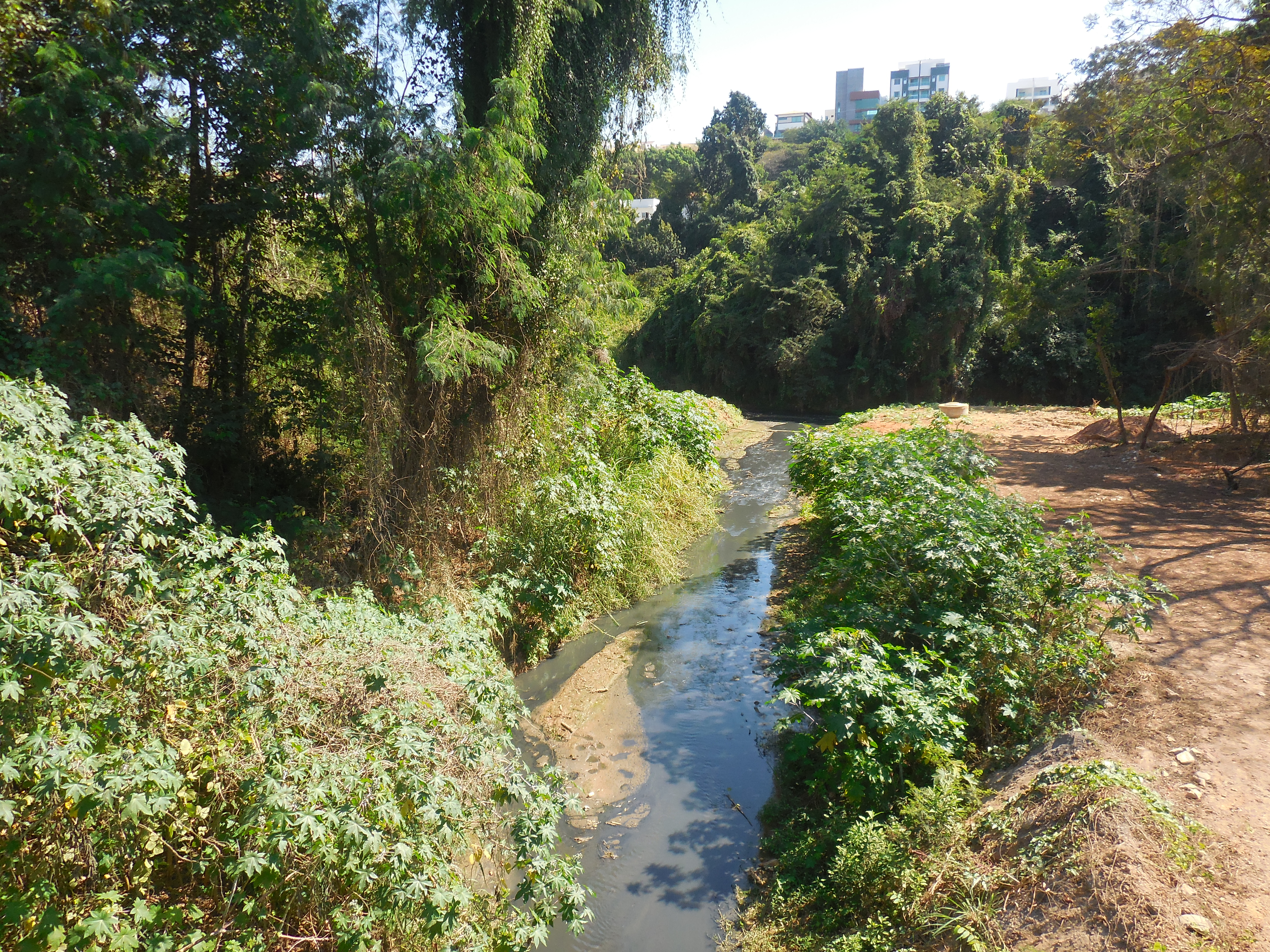 The Timóteo stream near its mouth, in Timóteo, Minas Gerais, Brazil.